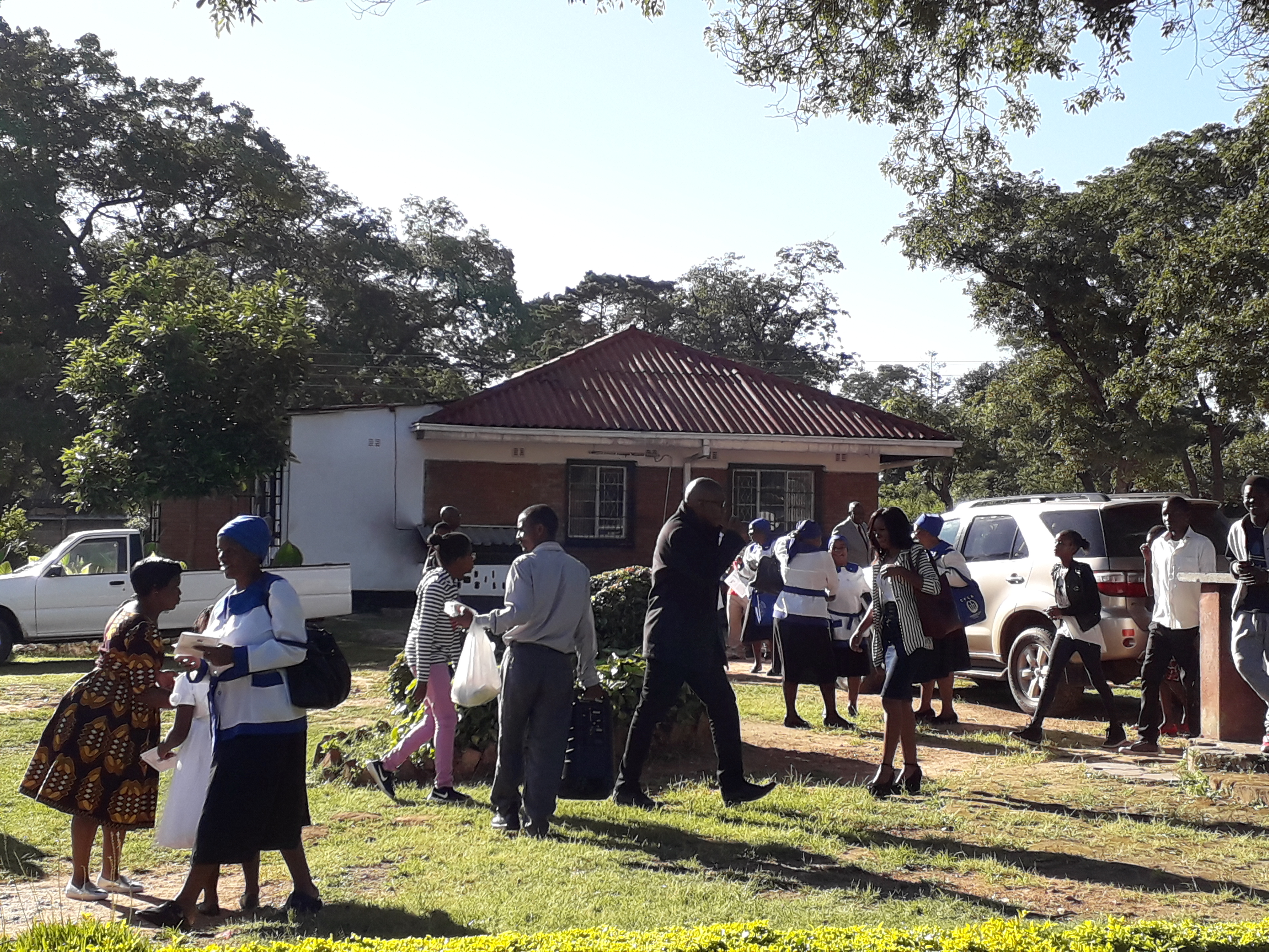 This is an image with the theme "Africa on the Move or Transport" from: Zimbabwe